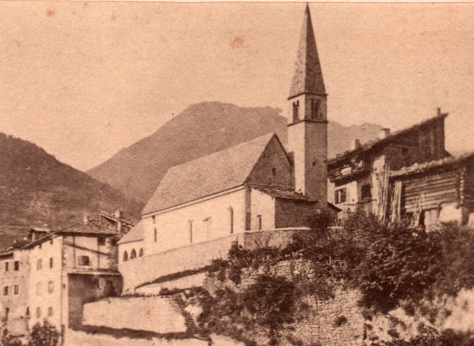 Piazzo (Segonzano, Trentino, Italy) - The church of the Immaculate as it appeared in 1883-84, before the enlargement of the aisles and the presbytery (cropped from File:Frana di Piazzo.jpg)